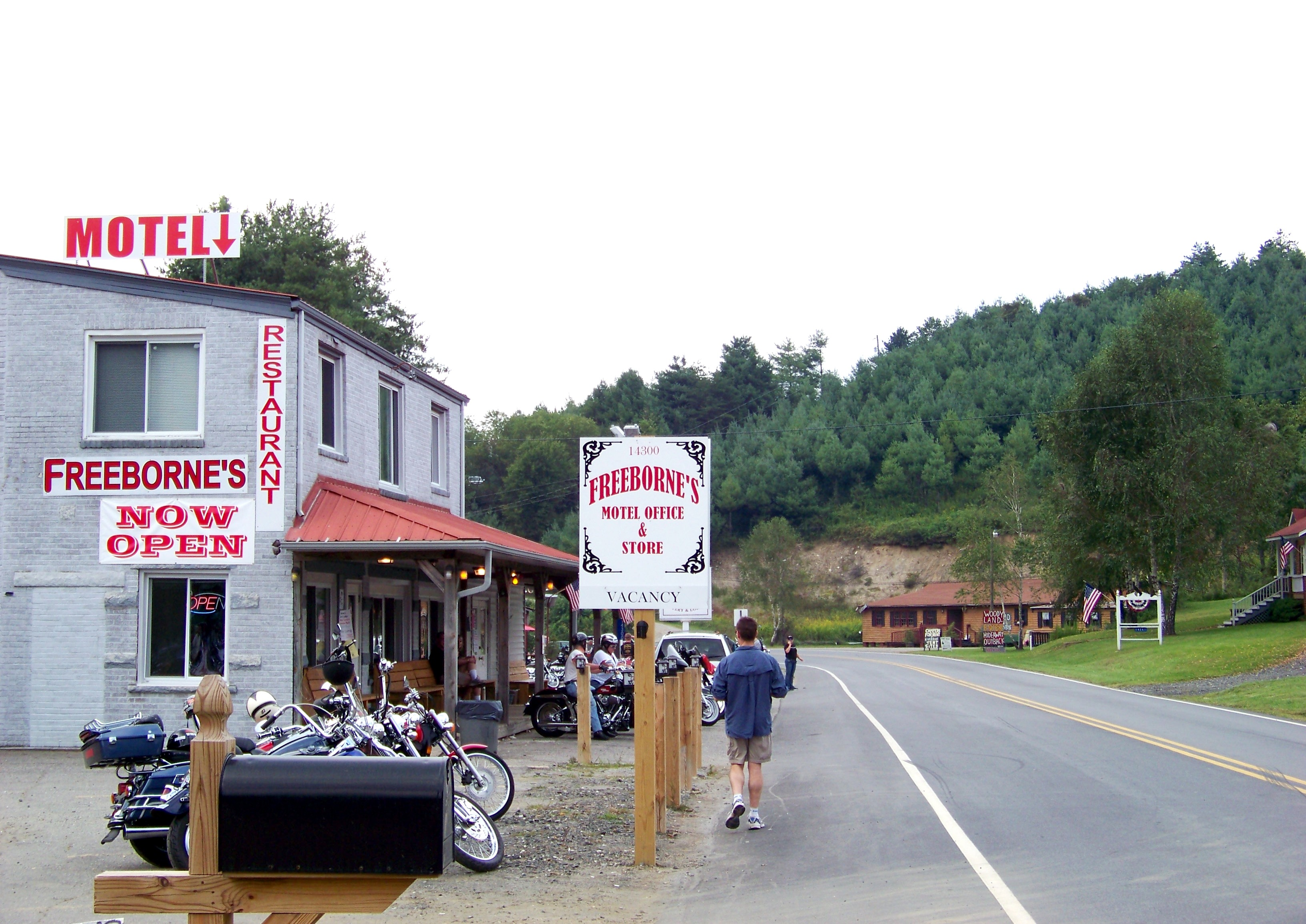 Freeborne's Motel and Restaurant